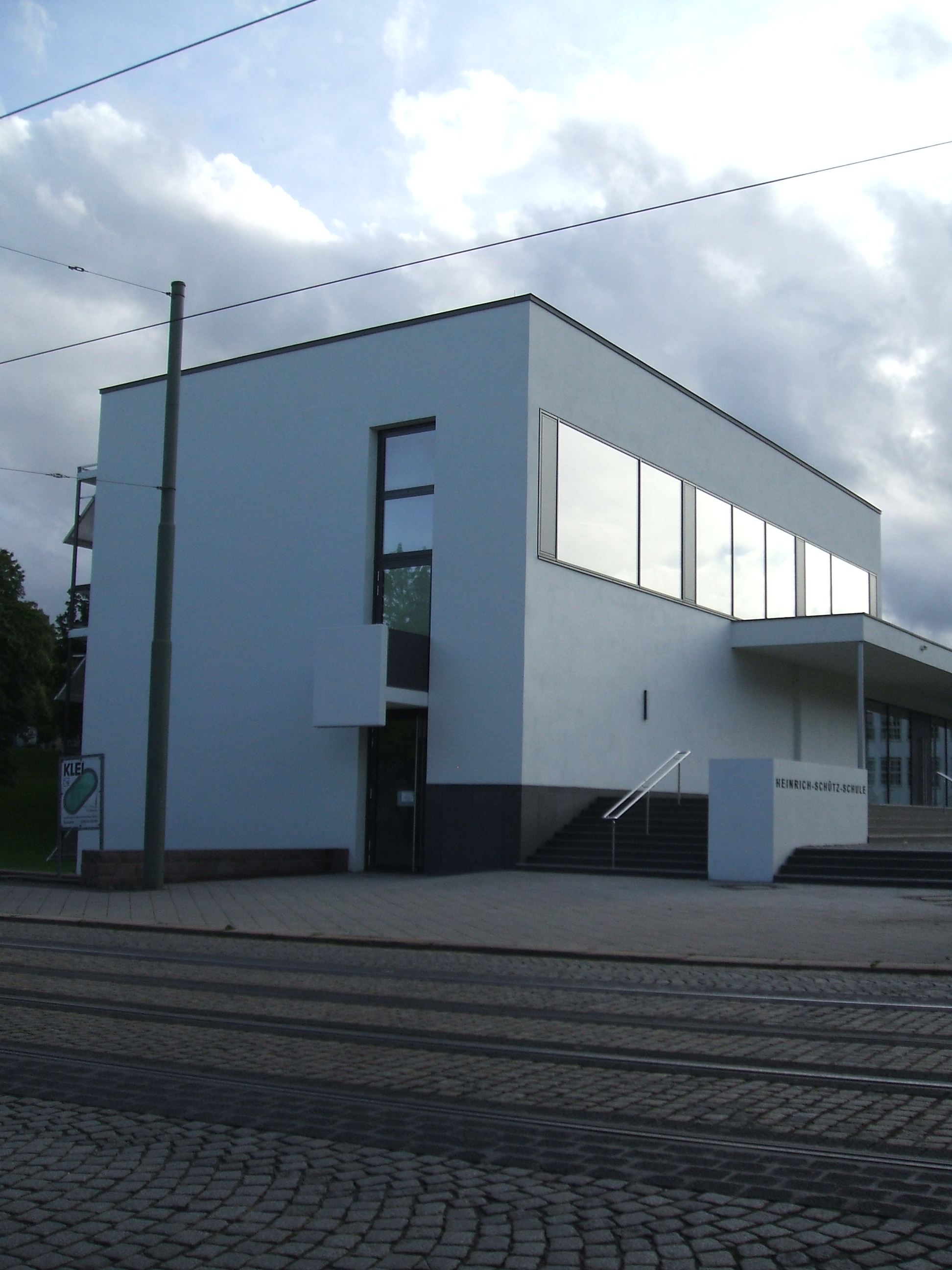 Entrance of Heinrich-Schütz-Schule at Malwida von Meysenbug-Wing